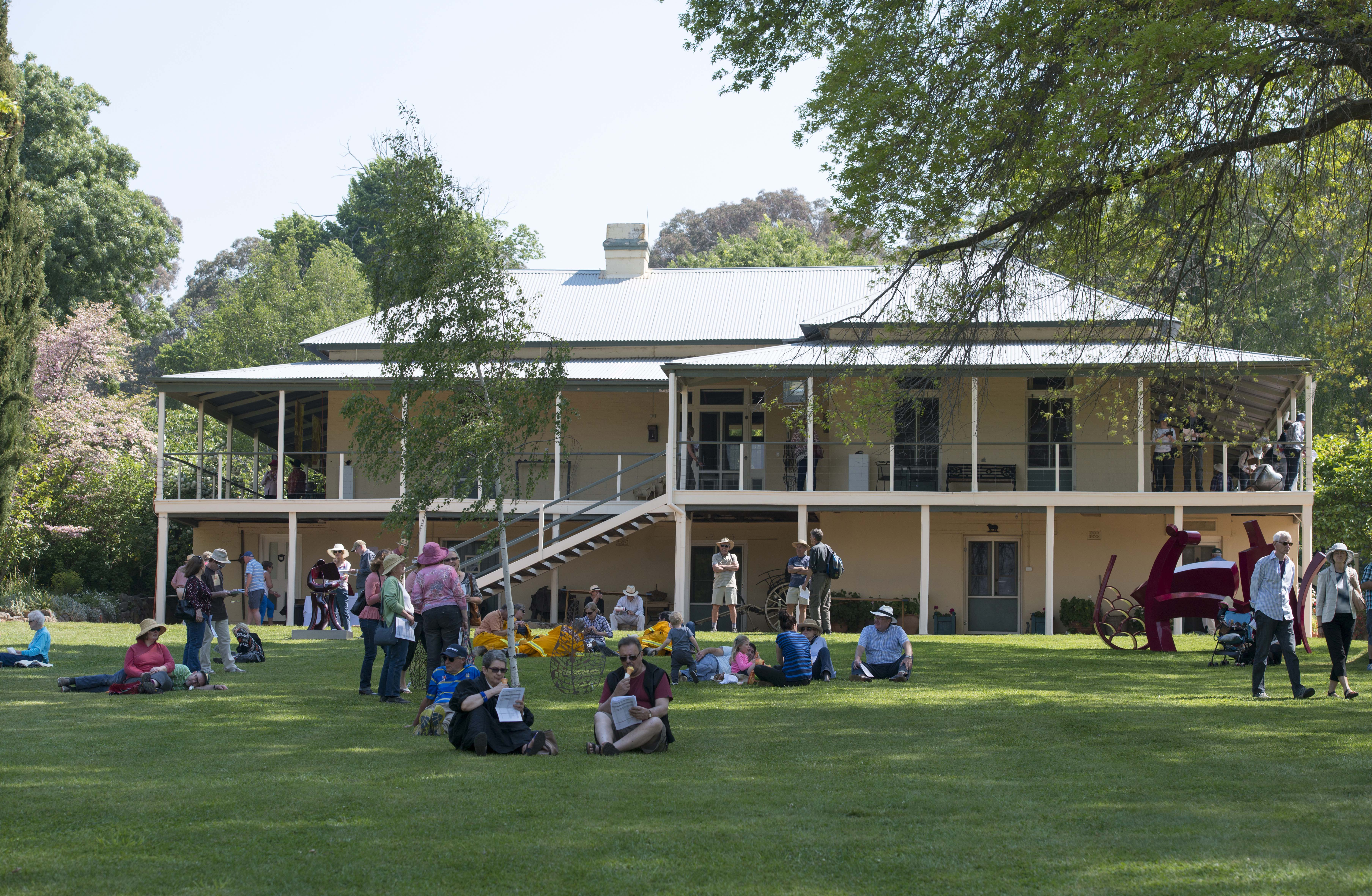 Lambrigg Homestead, Tharwa, New South Wales